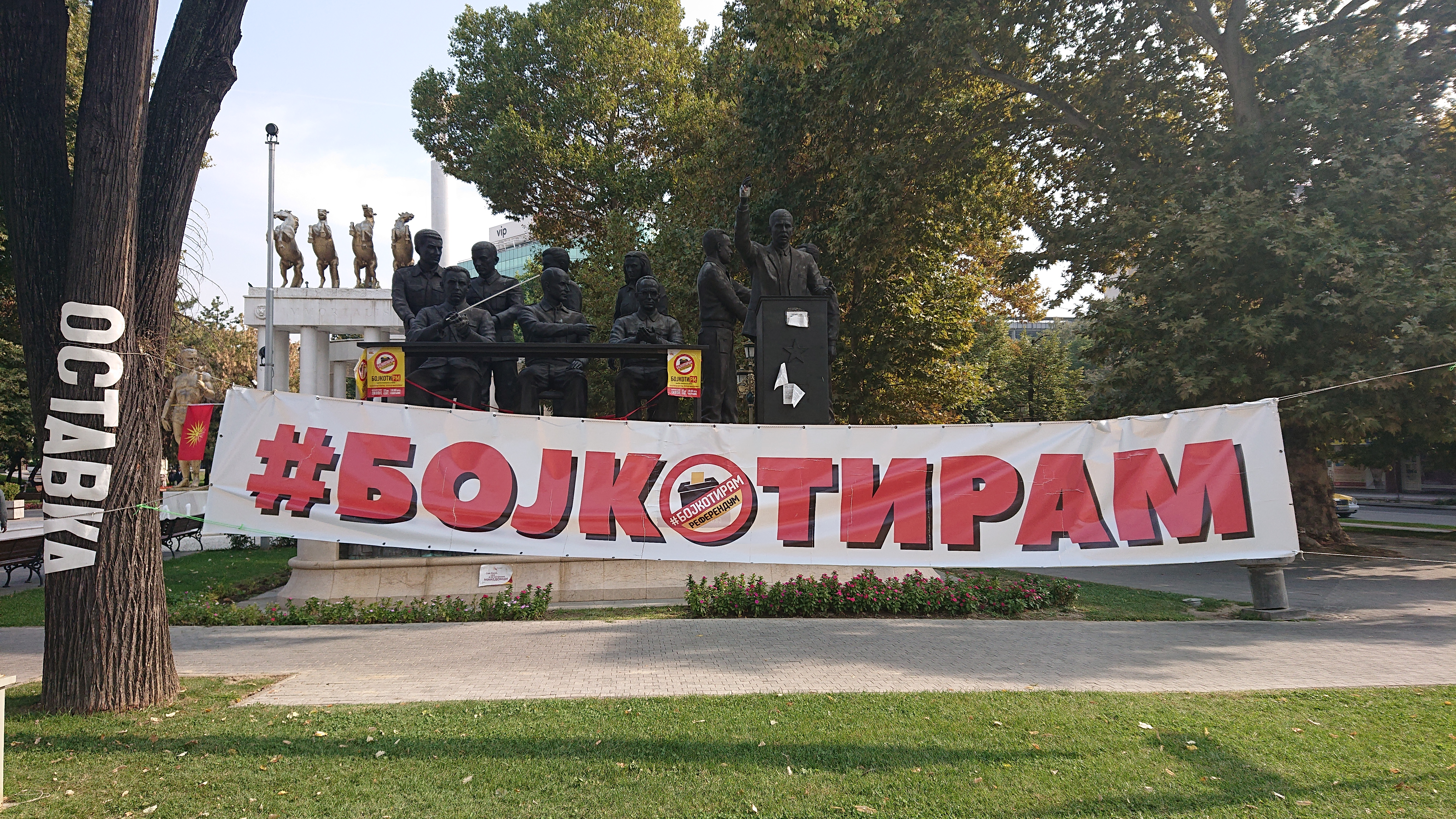 Banners (and some posters) of the Bojkotiram movement opposite to the Parliament of the Republic of Macedonia in Skopje.